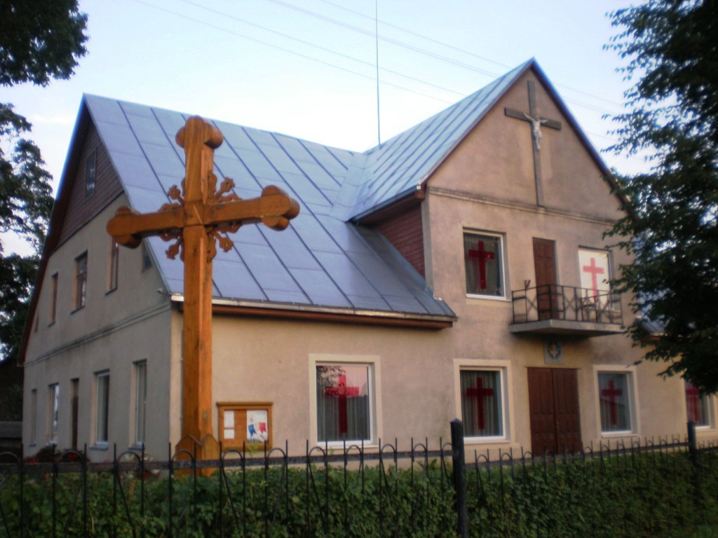 The church of Kulva